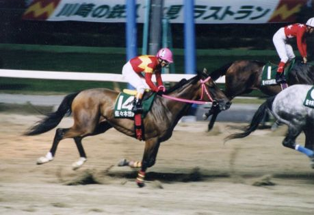 佐々木竹見騎手のラストラン（2001年7月7日 川崎競馬場で撮影） It takes a picture in Kawasaki Racecourse on SASAKI Takemi (Japanese jockey) and July 7, 2001.